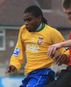 Onome Sodje playing for York City against Droylsden at Butcher's Arms Ground, Droylsden on 1 January 2008